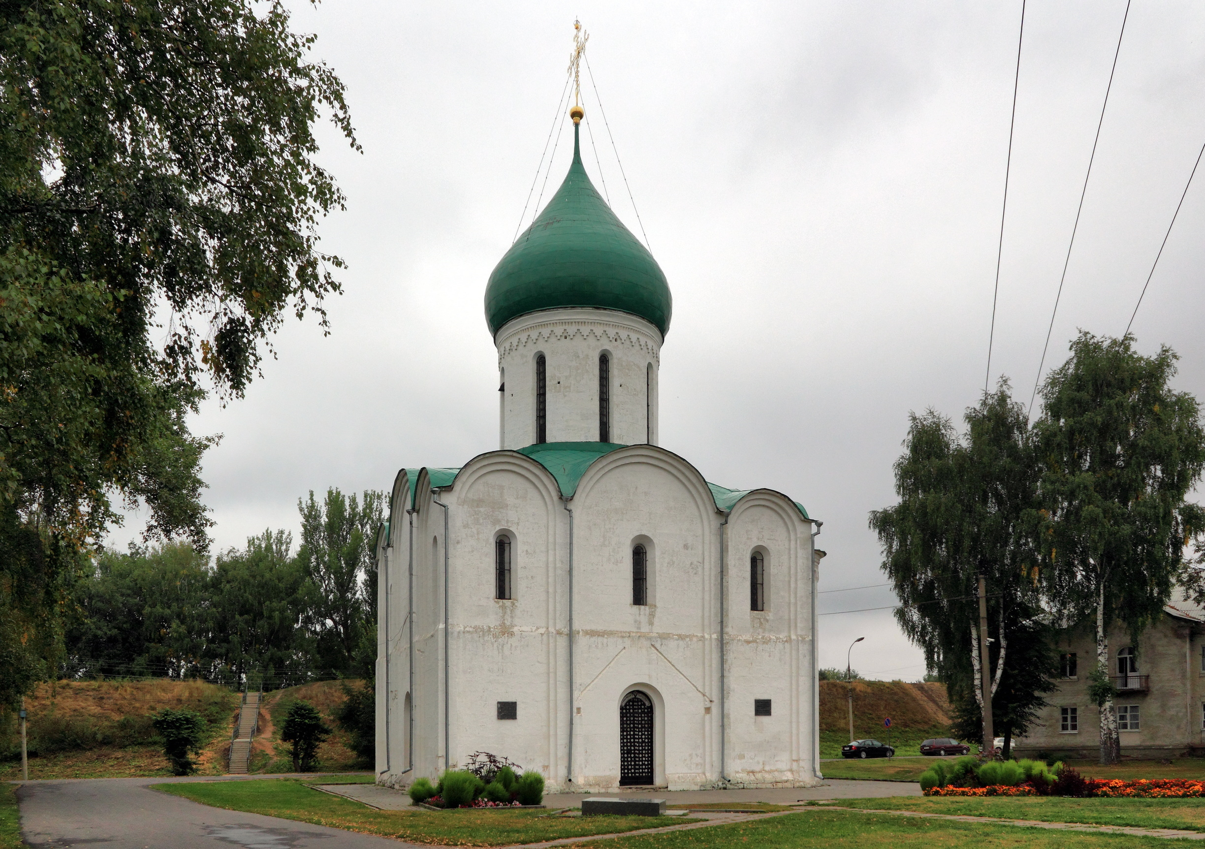 Pereslavl-Zalessky. Spaso-Preobrazhensky Cathedral